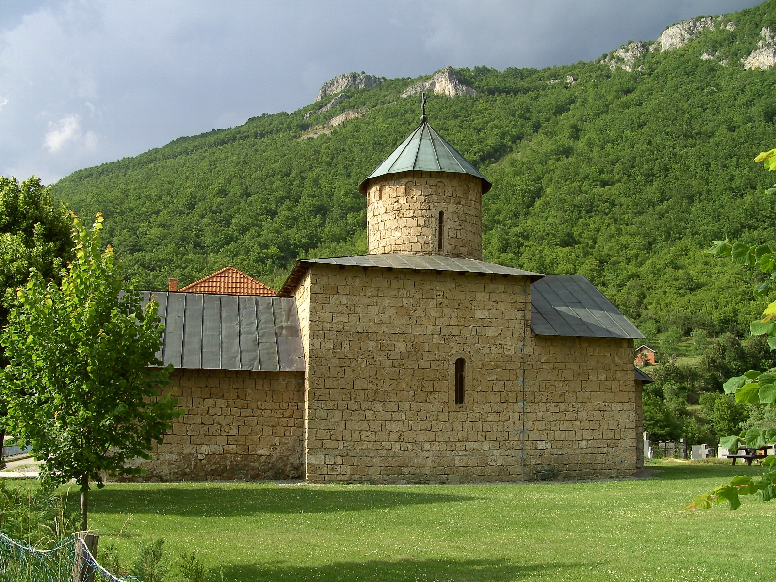 Rmanj monastery near Martin Brod, BiH